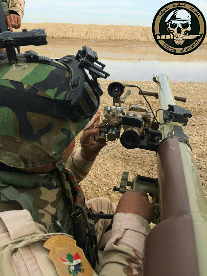 Gunfire